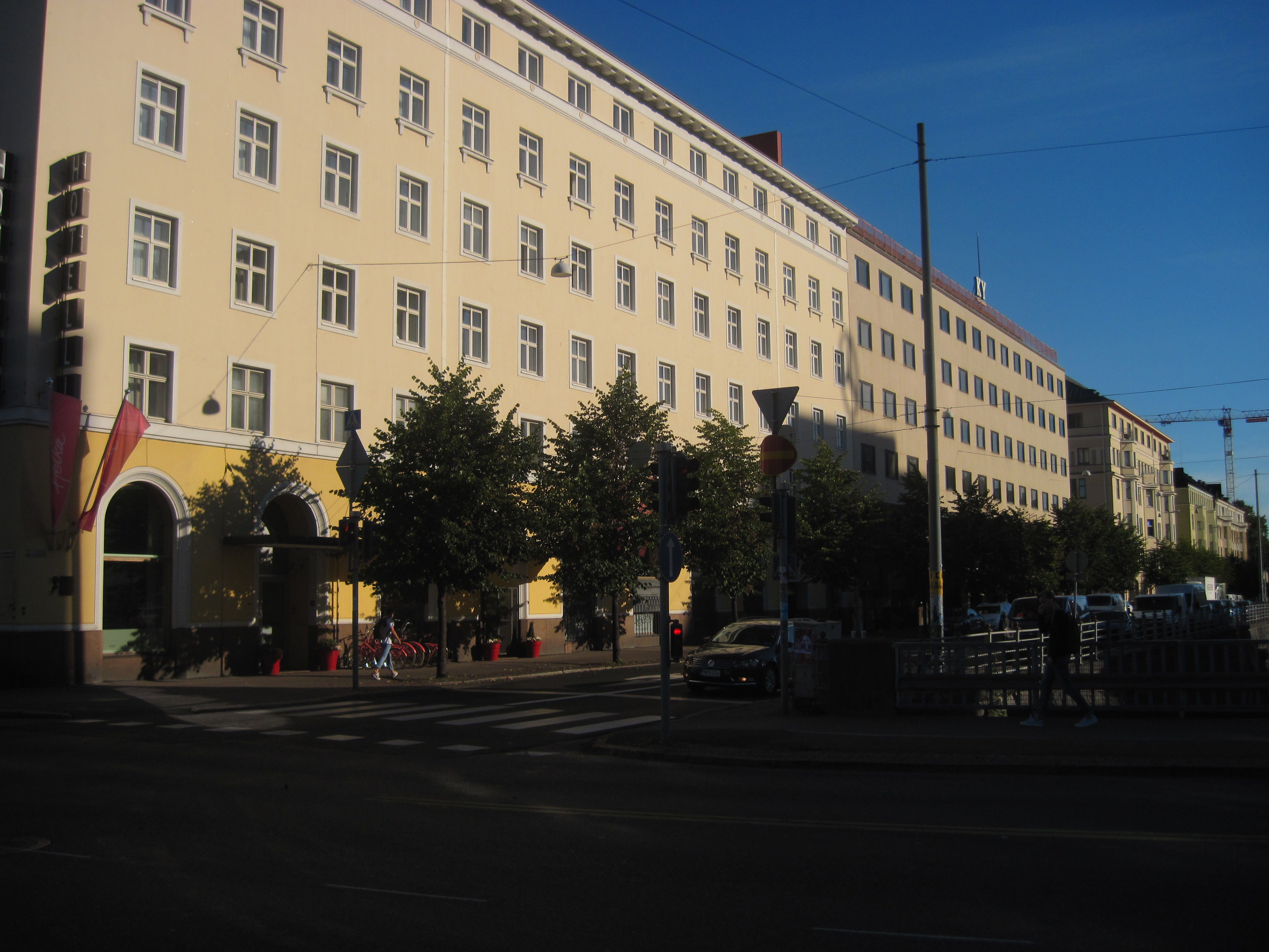 Hotel Helka and KY building in Helsinki